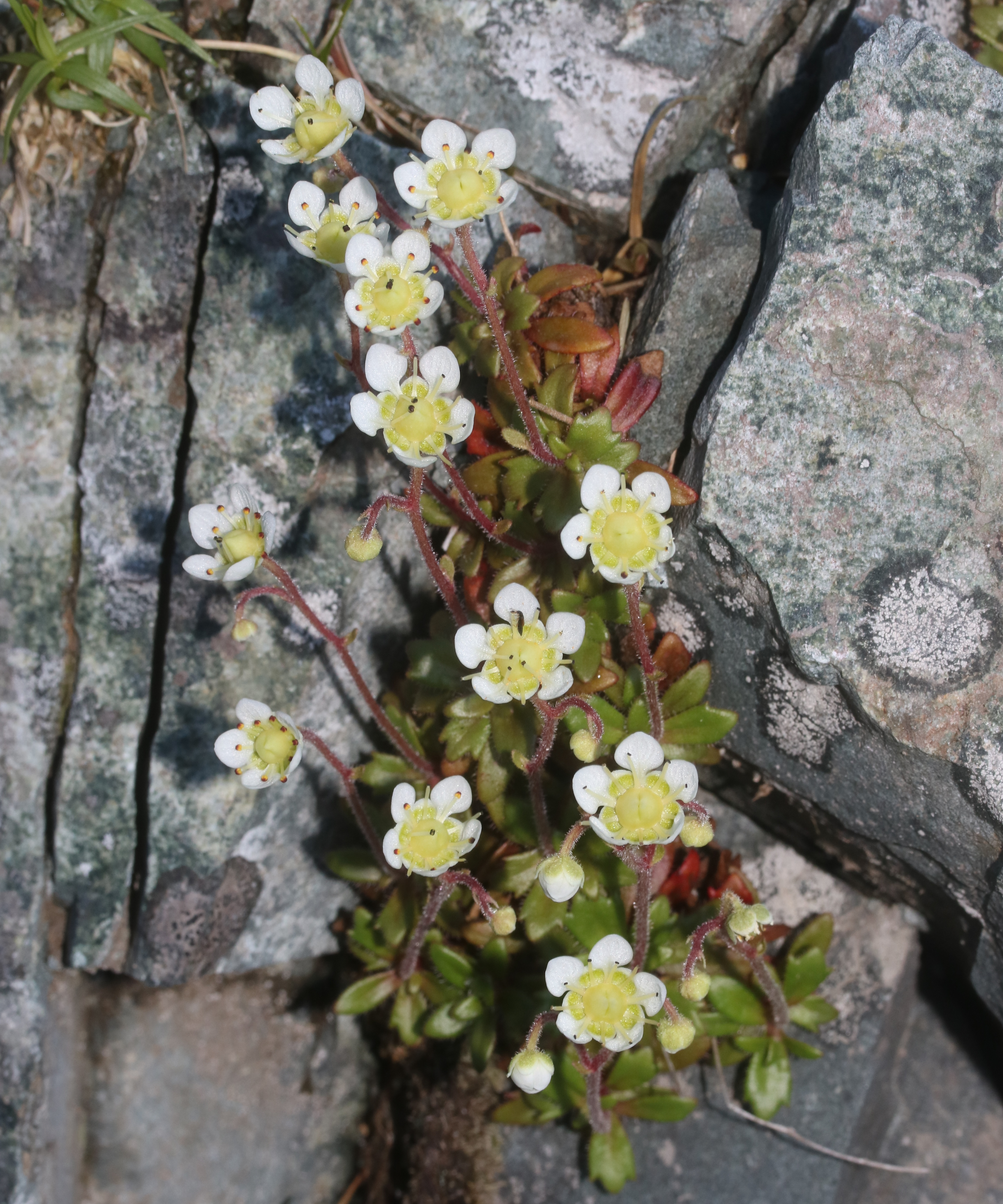 Saxifraga merkii var. idsuroei in Mount Tsurugi (Hida Mountains), Kamiichi, Toyama Prefecture, Japan.